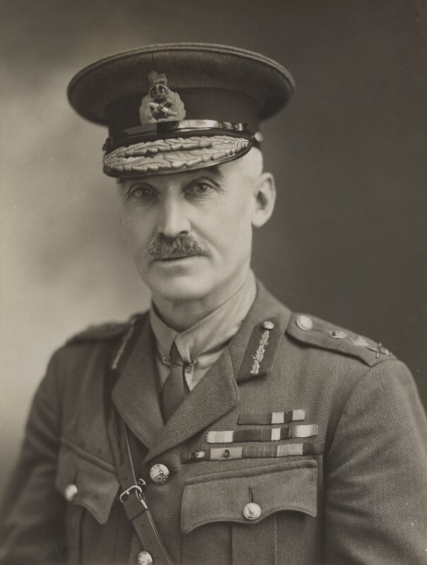 Portrait of Lord Horne